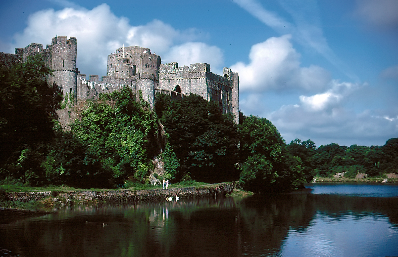 Pembroke Castle, Pembrokeshire, Wales